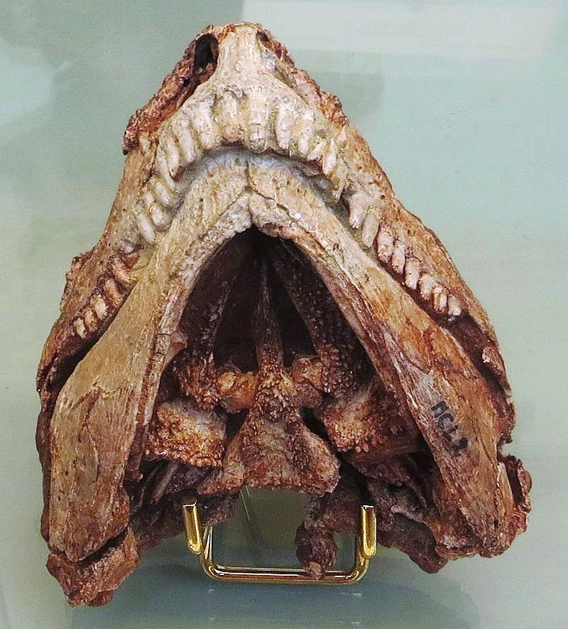 Euromycter rutenus : skull in ventral view on display at the National Museum of Natural History in Paris.